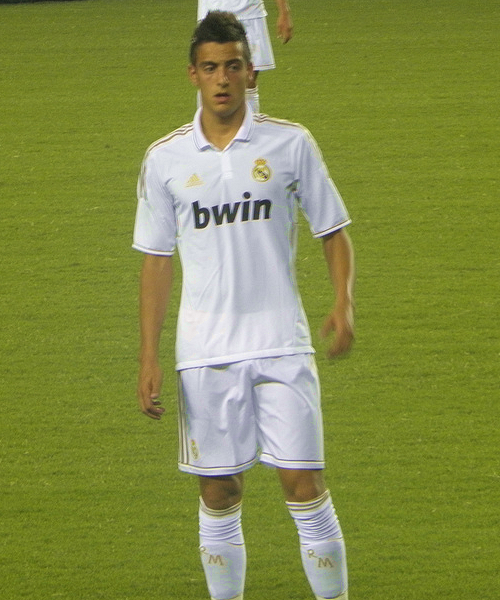 Real Madrid Castilla player José Luís "Joselu" Sanmartín Mato, at the Real Madrid-Philadelphia Union friendly.